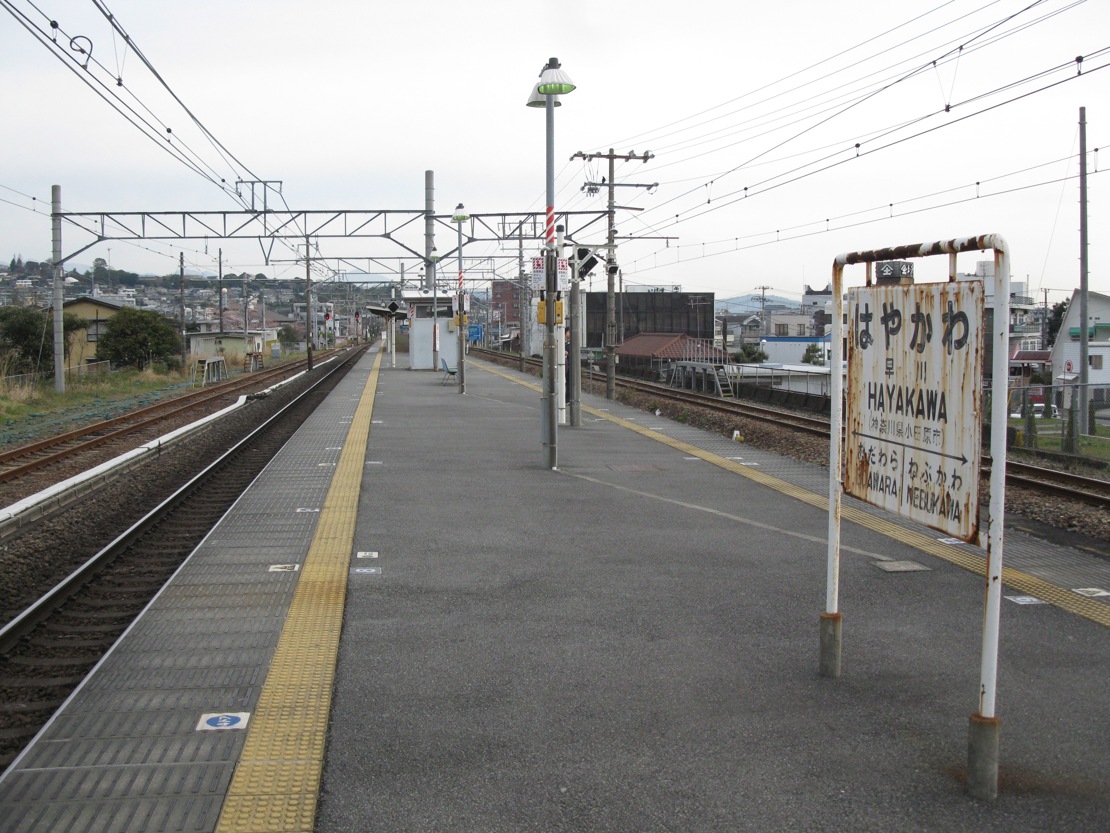 The platform at Hayakawa Station on the East Japan Railway(JR East) Tōkaidō Main Line in Odawara city, Kanagawa prefecture, Japan